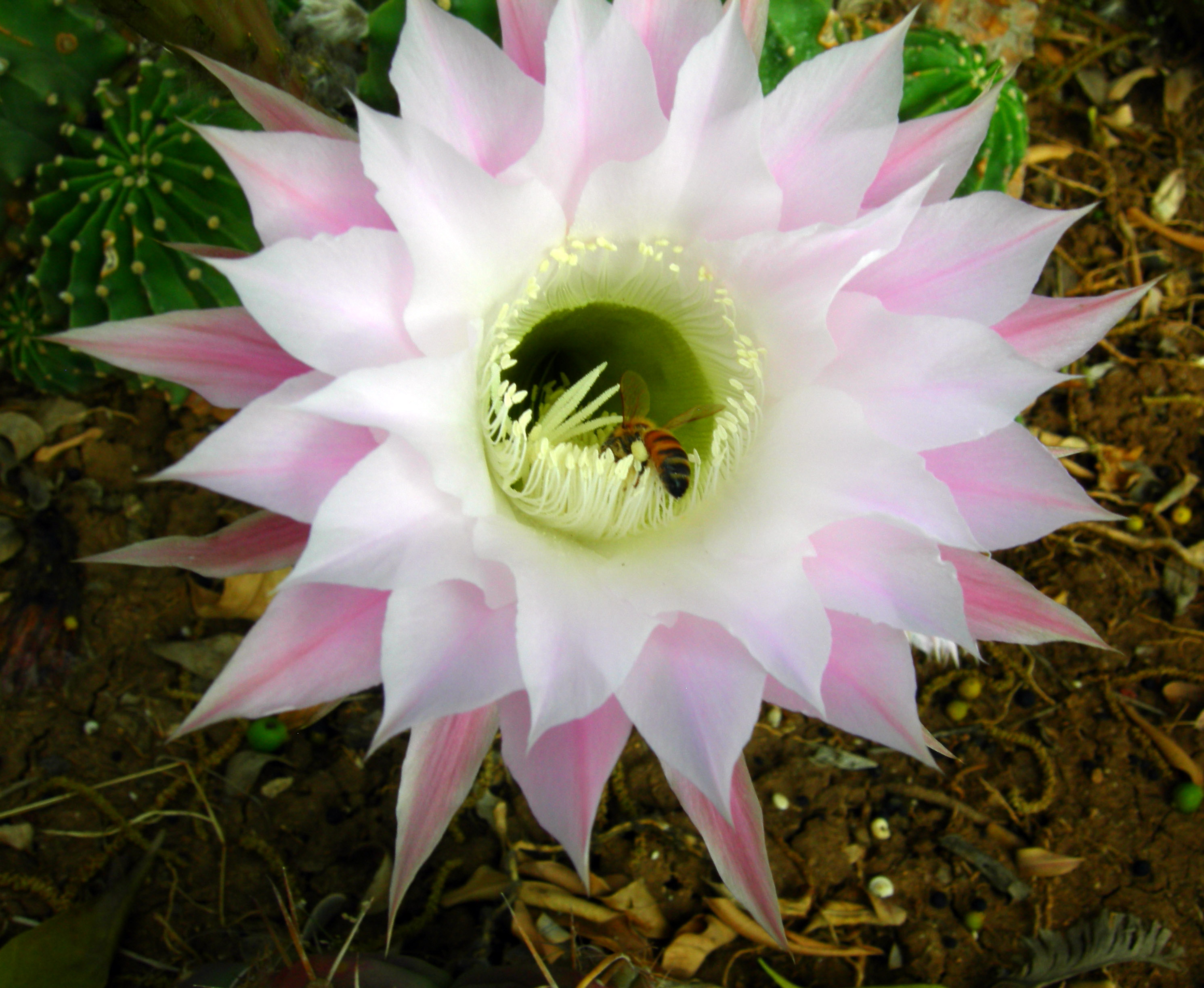 Echinopsis eyriesii flower being visited by a European honeybee in a garden at Kfar Blum Kibbutz, Israel.